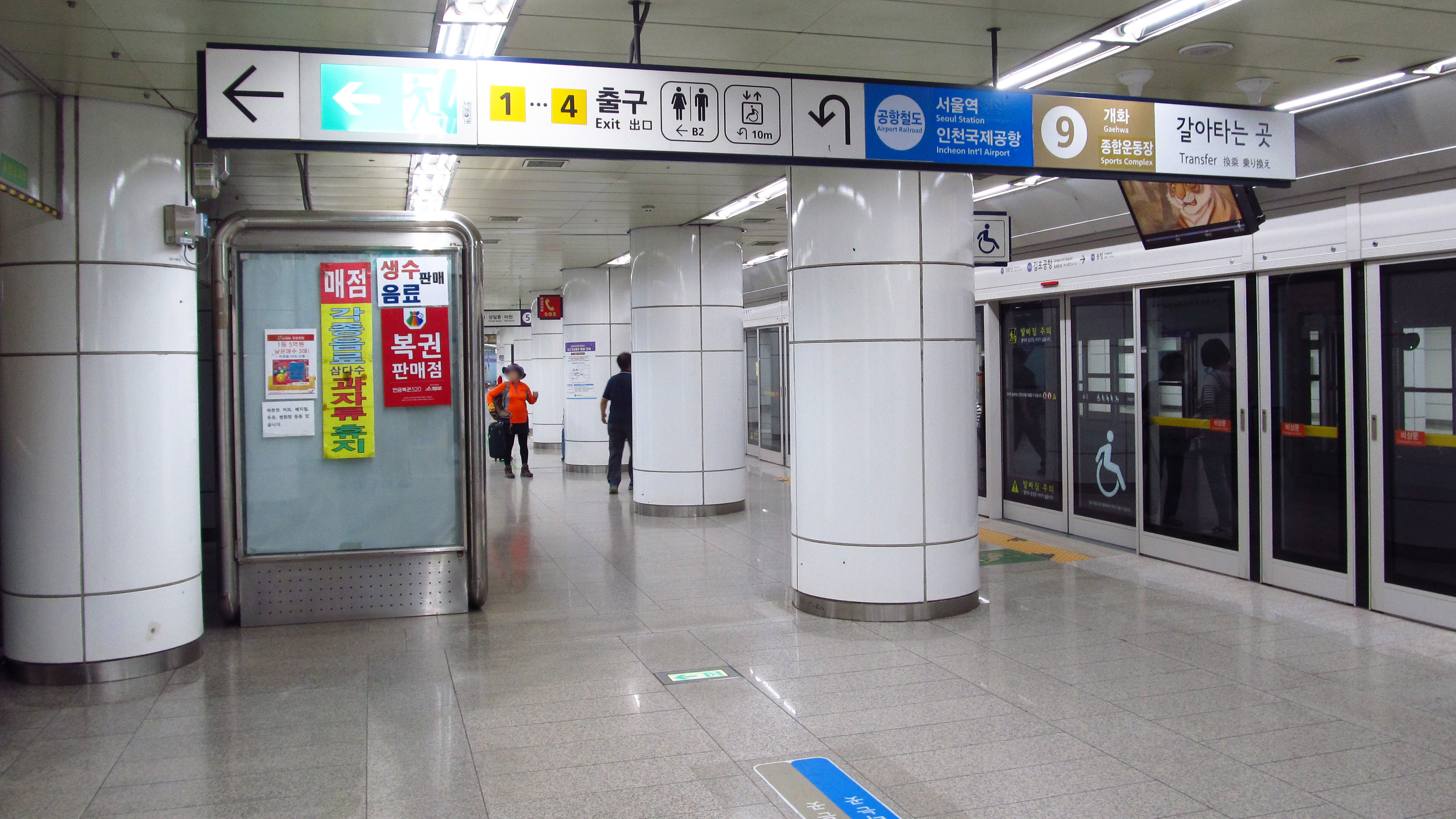 The platform at Gimpo International Airport Station for Seoul Subway Line 5